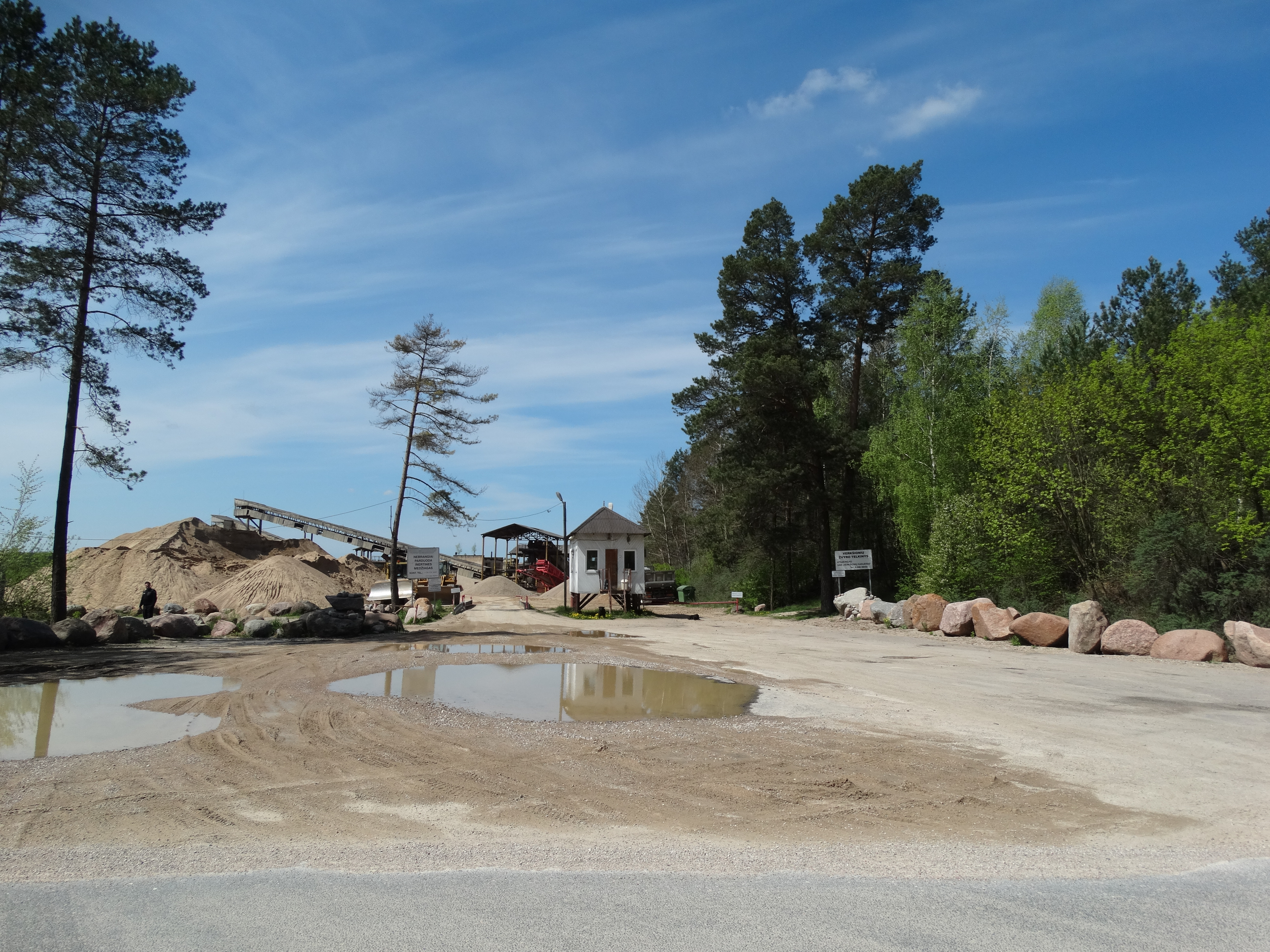 Gravel quarry, Verkšionys, Vilnius District, Lithuania